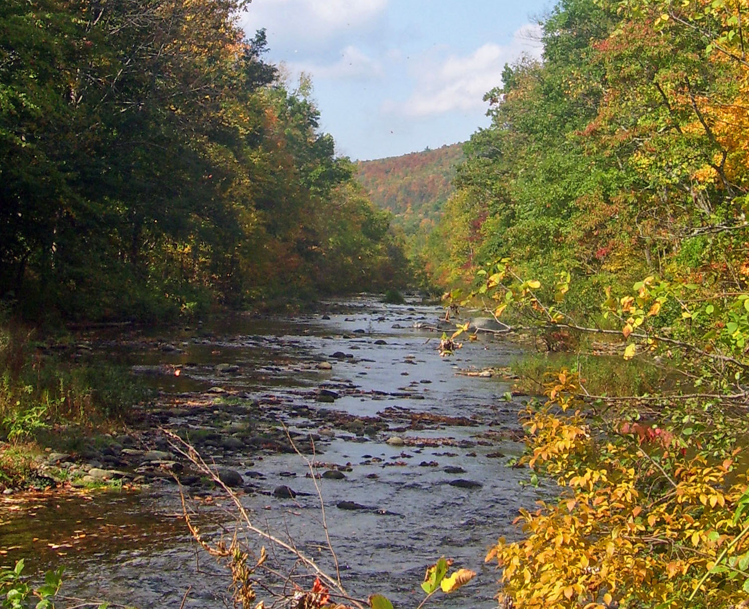 Rondout Creek above Napanoch, NY, USA